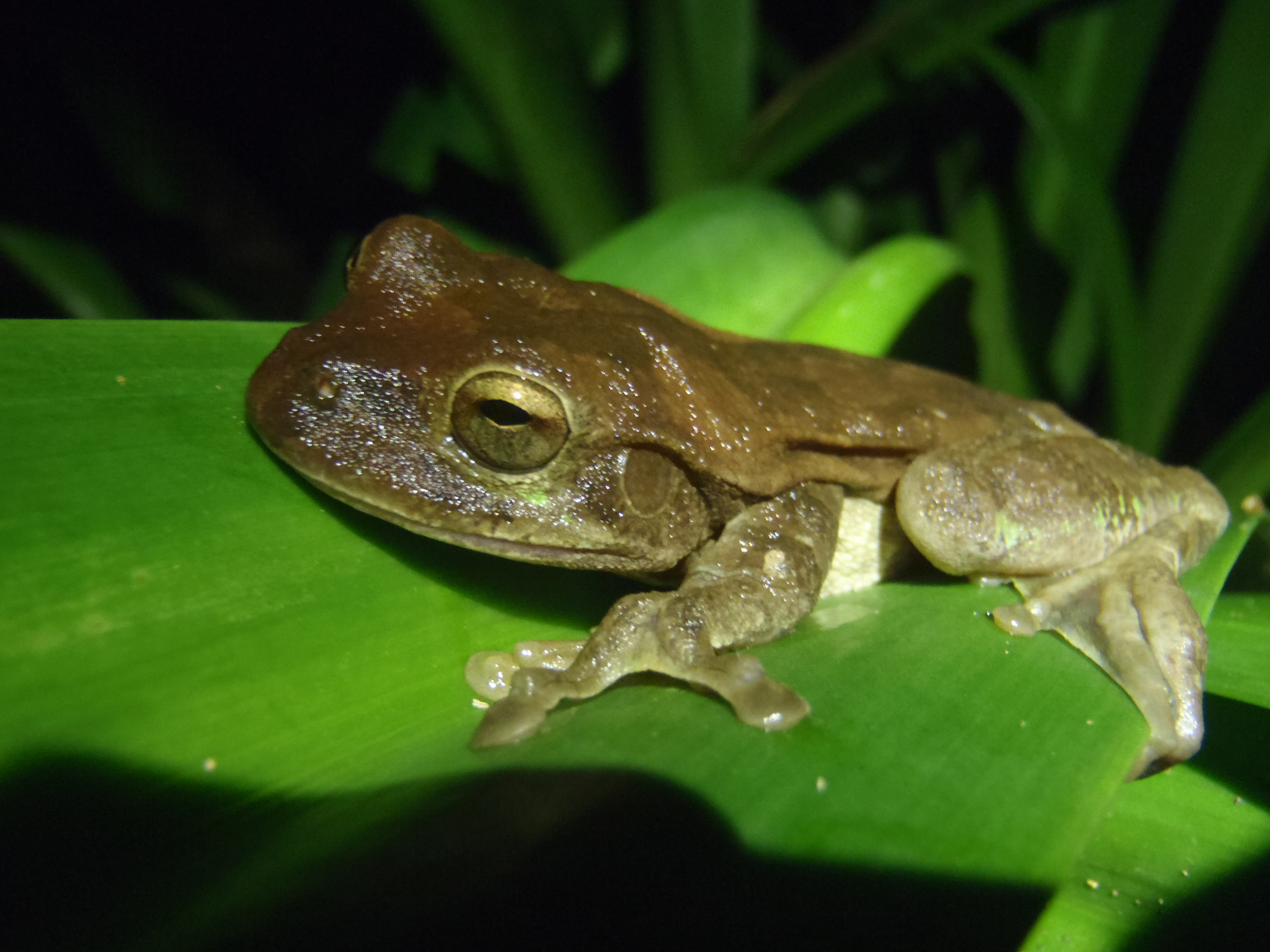 Photographed at the Sea Turtle Conservancy's John H. Phipps Biological Field Station